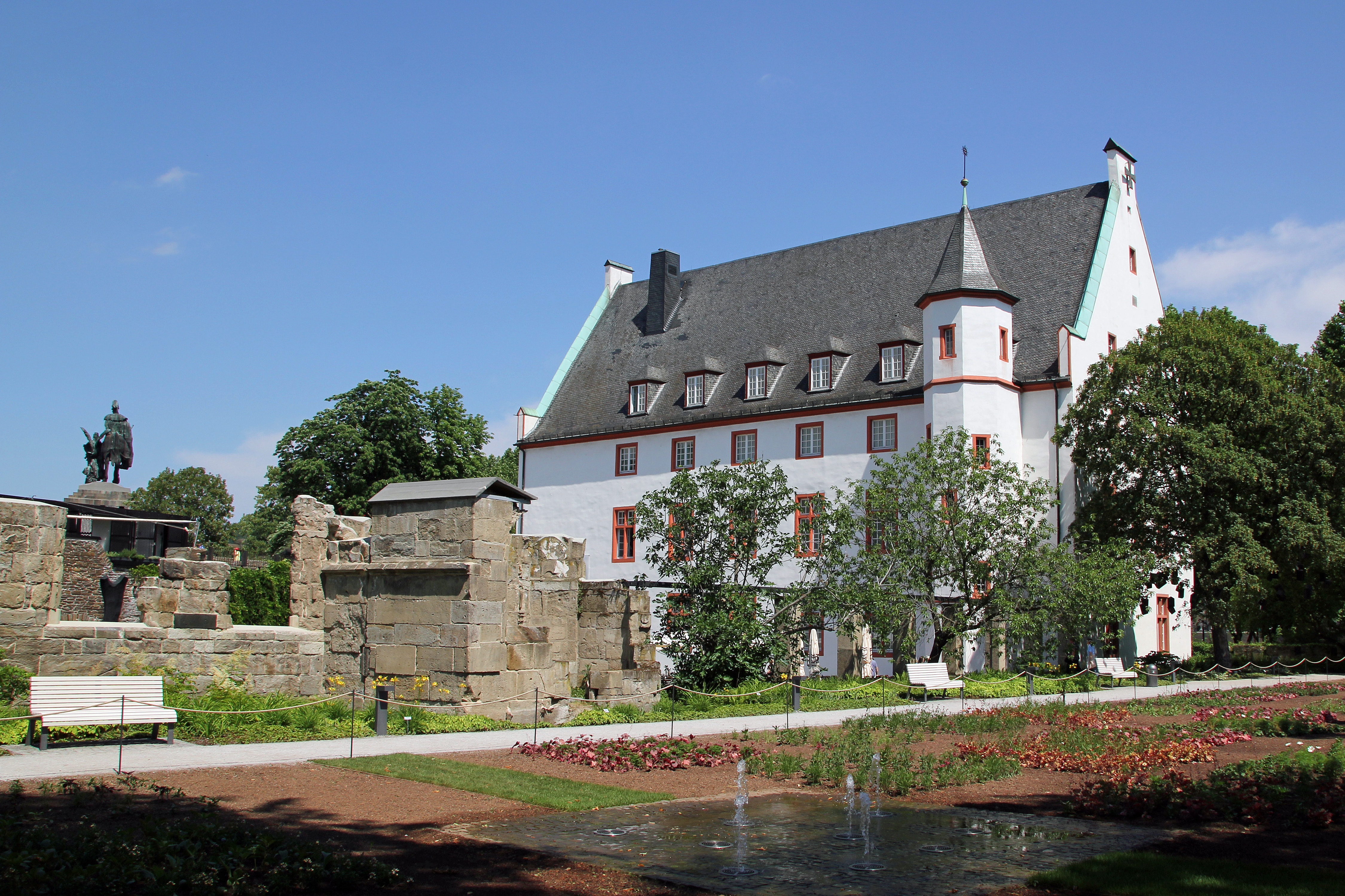 Federal Horticultural Show 2011 in Koblenz - Blumenhof at Deutsches Eck